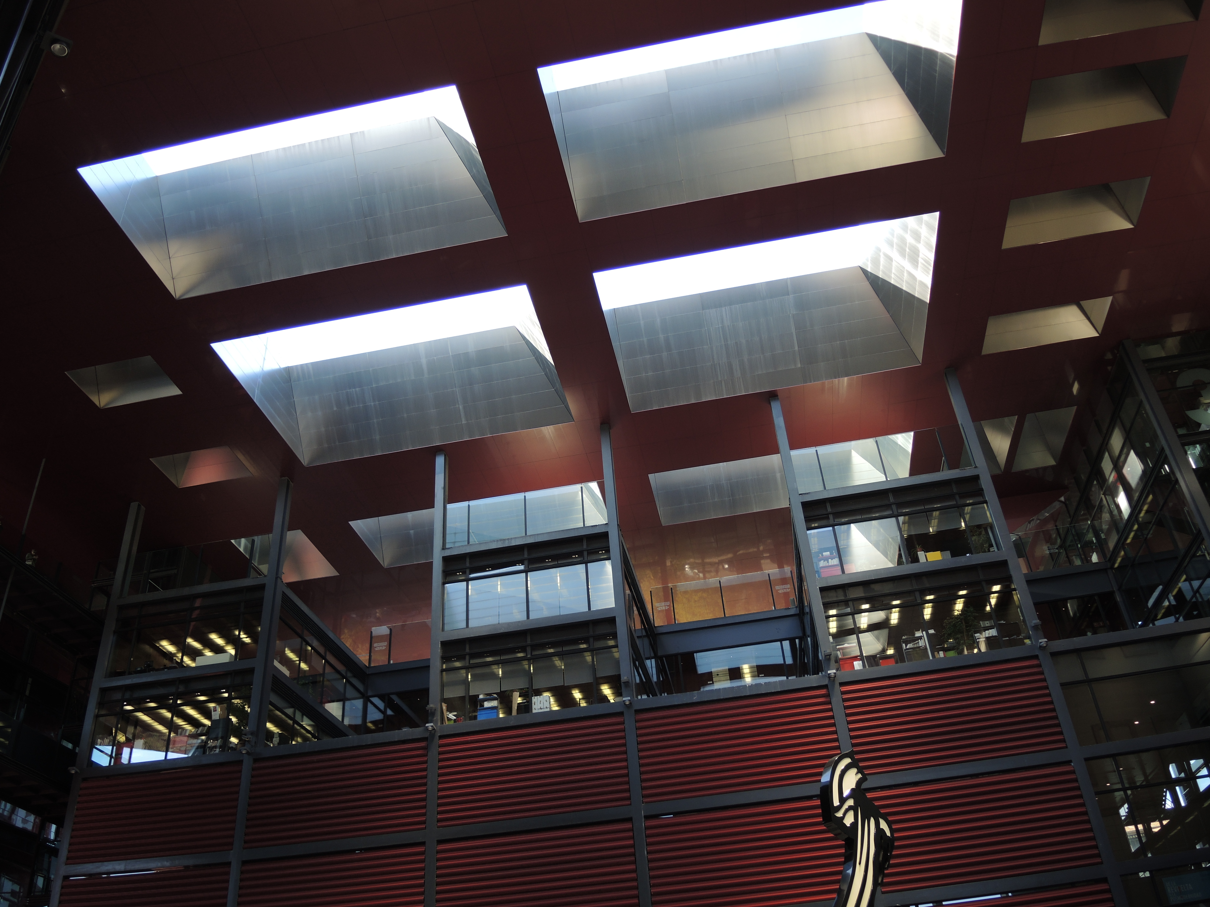 Museo Nacional Centro de Arte Reina Sofía interior view of Nouvell building